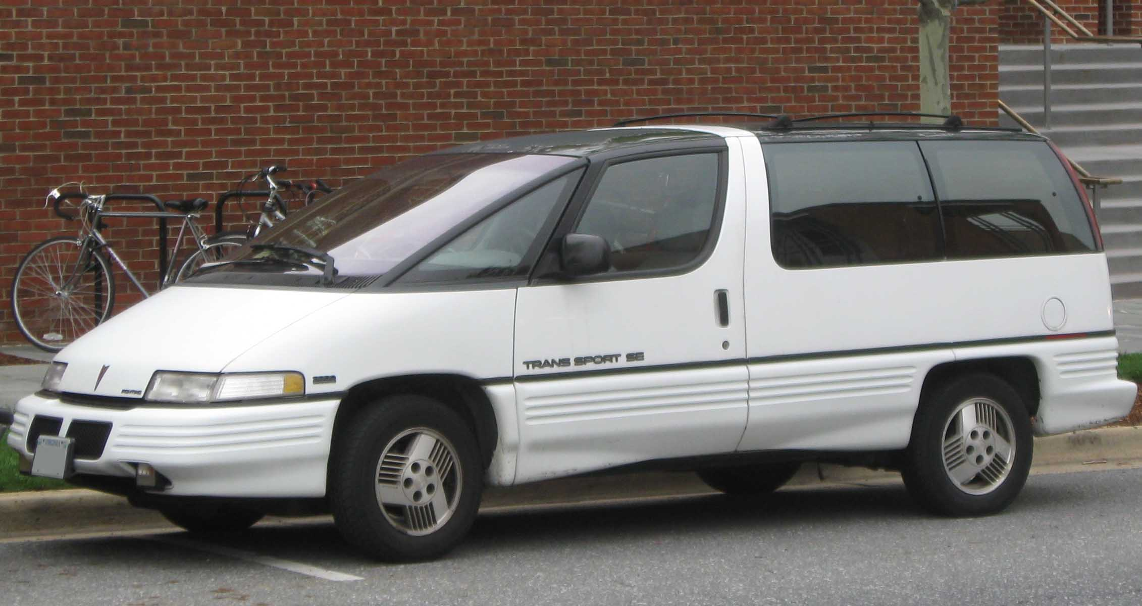 1990-1993 Pontiac Trans Sport photographed in College Park, Maryland, USA.